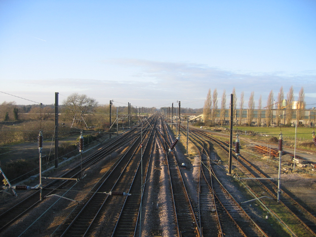 East coast main line, Tallington, Lincs. View NW looking 'down'.